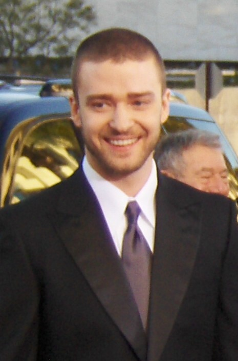 Justin Timberlake arriving at the 2007 Golden Globes. Cropped from flickr photo by Joe Shlabotnik